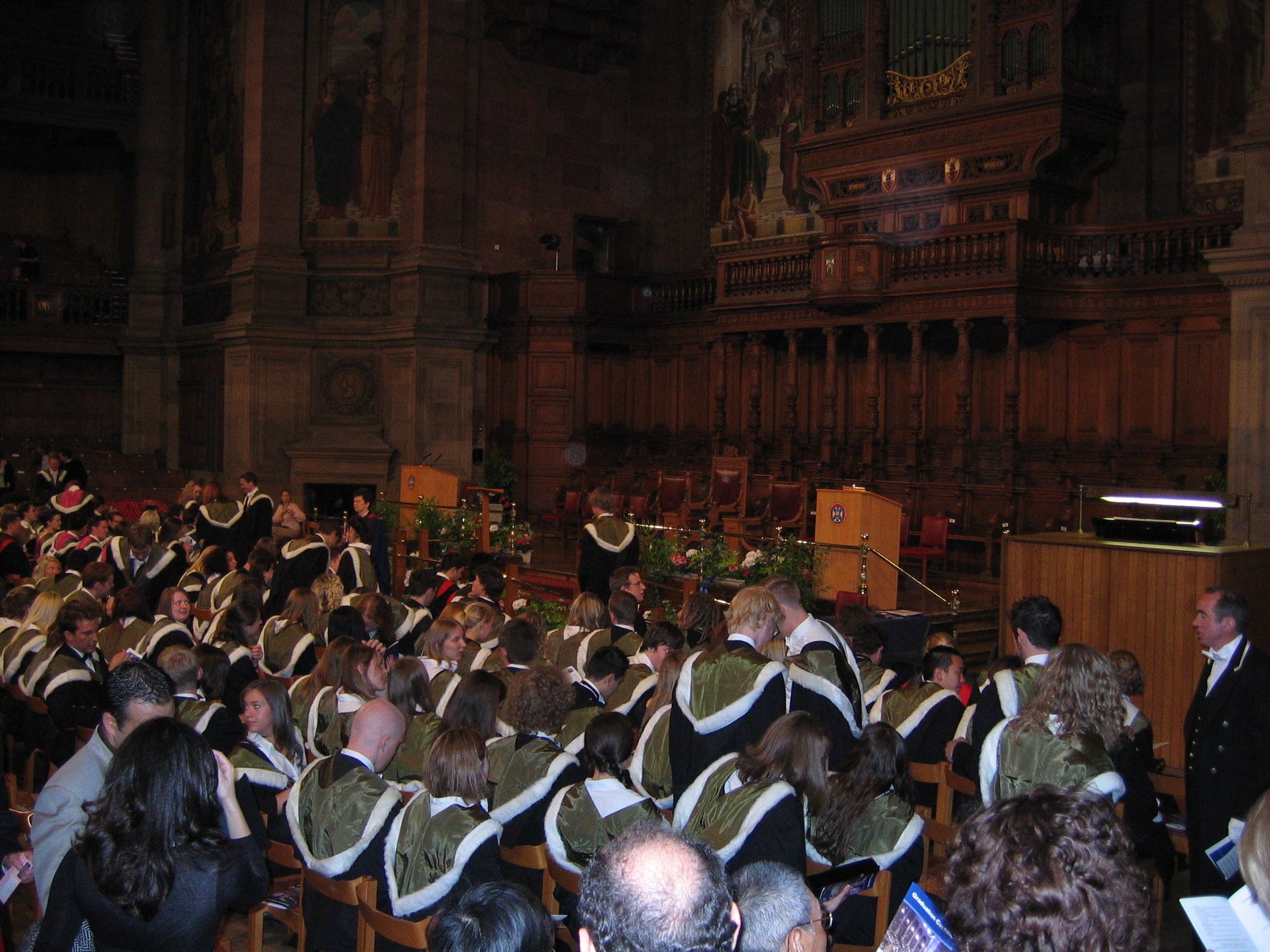 University of Edinburgh graduation ceremony at McEwan Hall, June 2008.